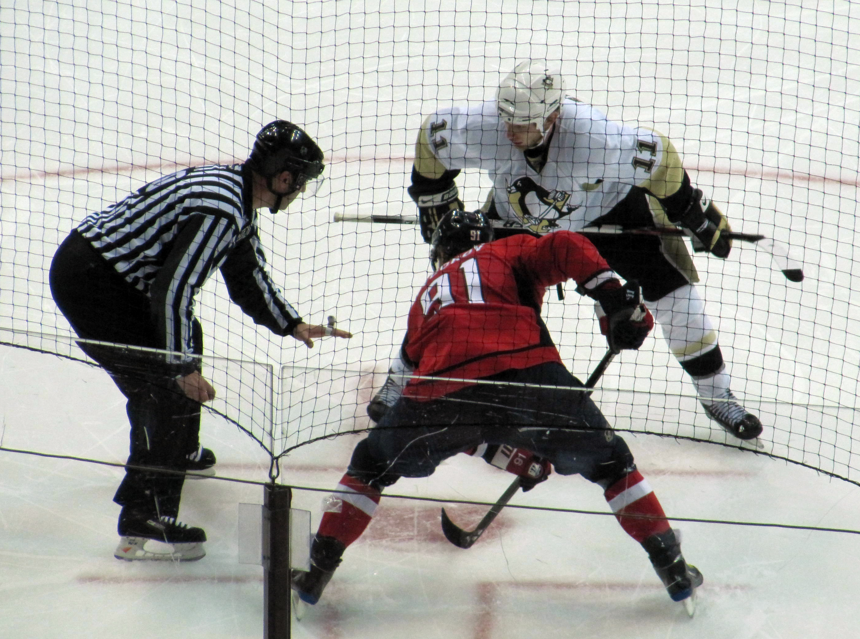 Face off between Jordan Staal (11) and Sergei Fedorov (91) during first game of the playoffs 2009.